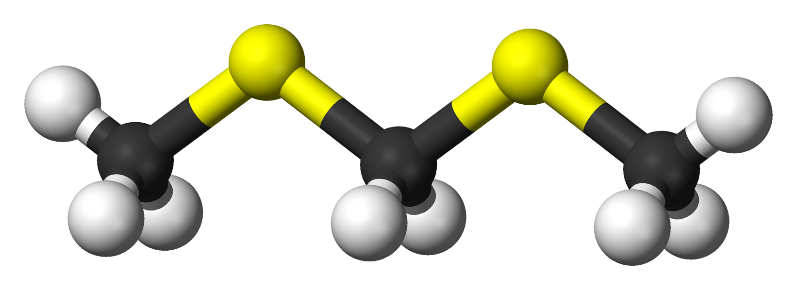 Ball-and-stick model of the 2,4-dithiapentane molecule, a thioether known to be an important component of truffle flavor.